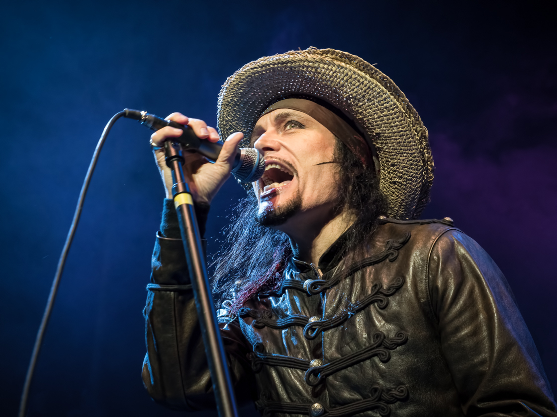 Adam Ant at The Masonic Theater in San Francisco 2017.